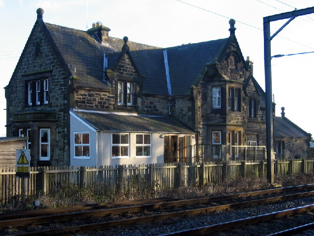 Stannington Station. An impressive if rather forbidding Victorian station house with a less than elegant recent addition. This is still a very busy level crossing on the main line from London to Edinburgh but it is a long way from Stannington! For more see: NZ2281